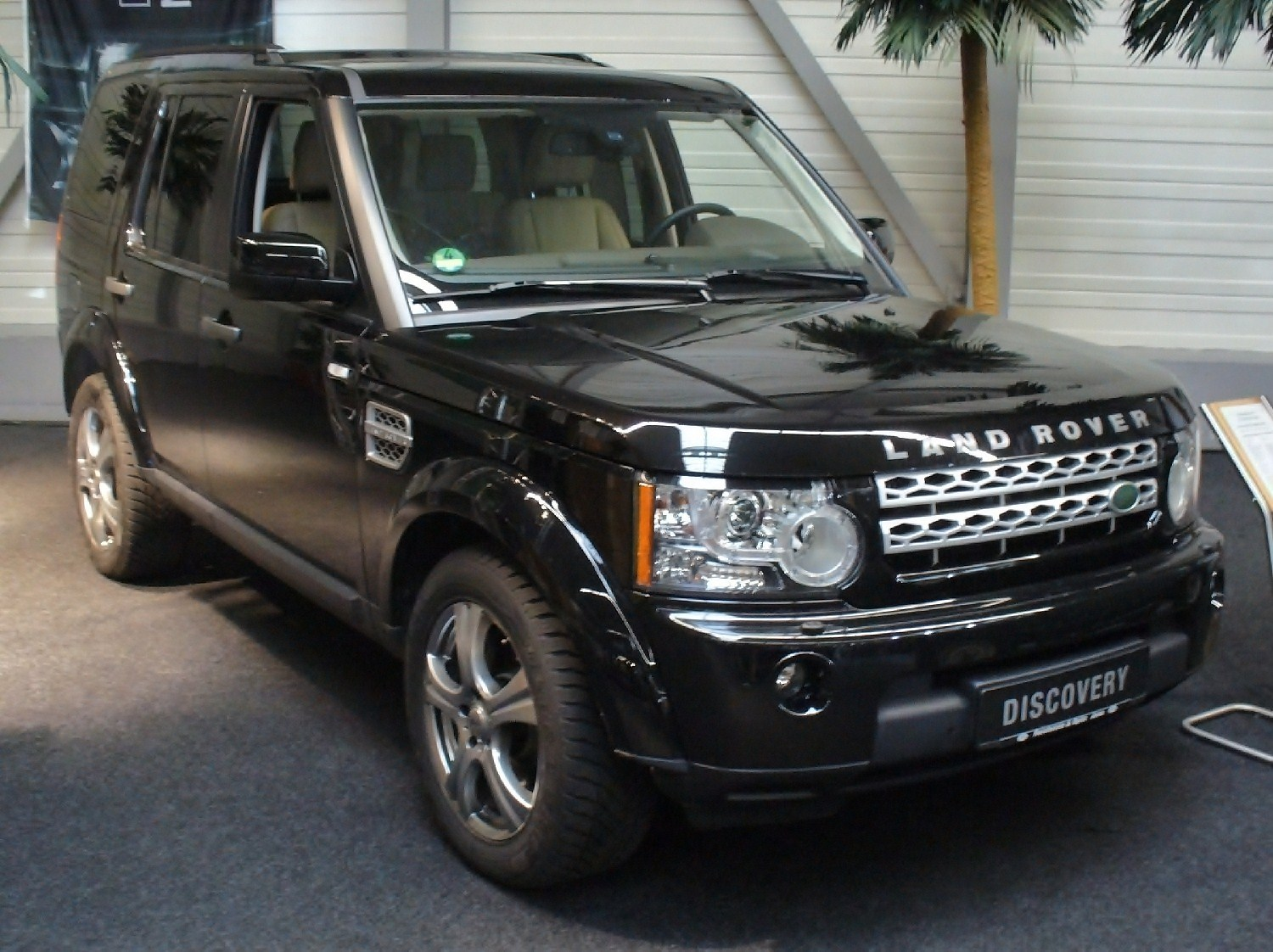 Land Rover Discovery 4